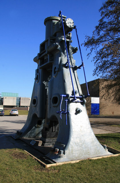 Steam hammer, Bolton University Nasmyth Wilson hammer that was formerly used at the Atlas forge of Thomas Walmsley in Bolton.